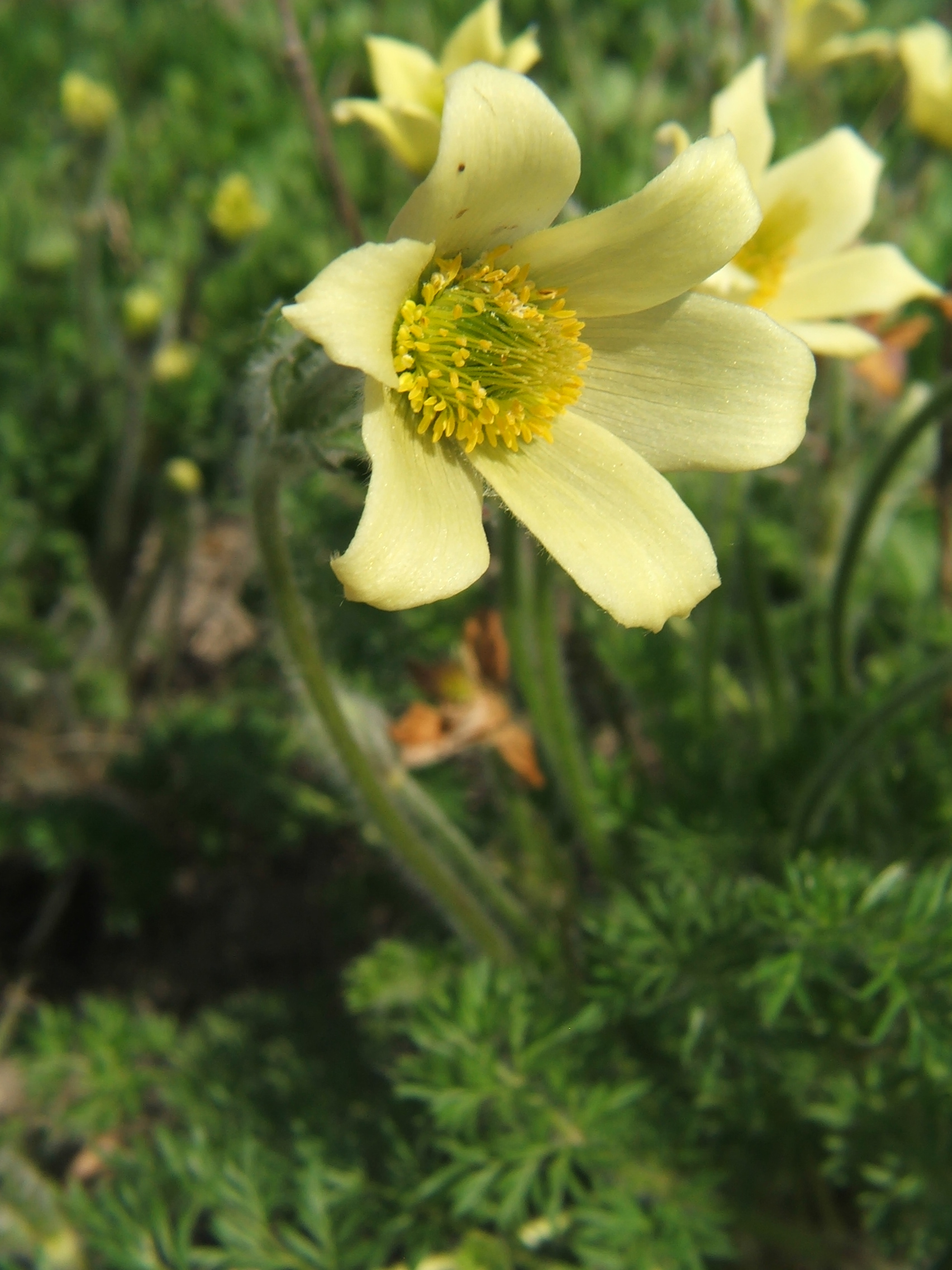 Pulsatilla albana - MTA Botanic Garden